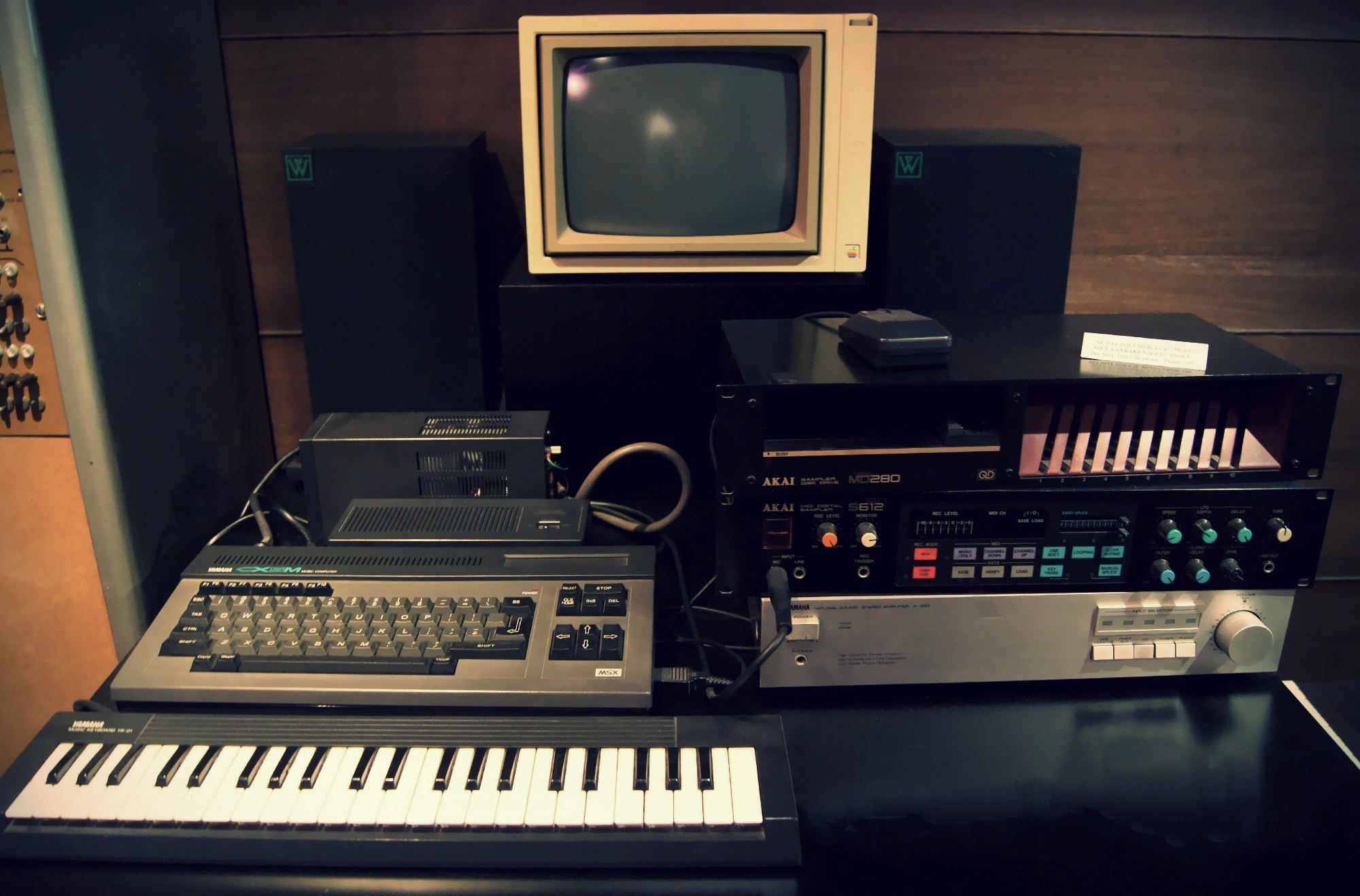 Yamaha CX5M Music Computer set Yamaha YK-01 Music Keyboard Yamaha CX5M Music Computer Yamaha SFG-01 FM Sound Synthesizer Unit (pre-built) AC power supply unit (dedicated) unknown unit (data recorder ?) Akai S612 set Akai MD280 Sampler Disk Drive Akai S612 MIDI Digital Sampler Audio amplifier: Yamaha Natural Sound Stereo Amplifier A-320 Audio monitor CRT monitor In the Musée des Instruments de Musique (Museum of Musical Instrument) in Brussels, Belgium.